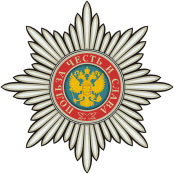 Star for Orden of Services to the Fatherland